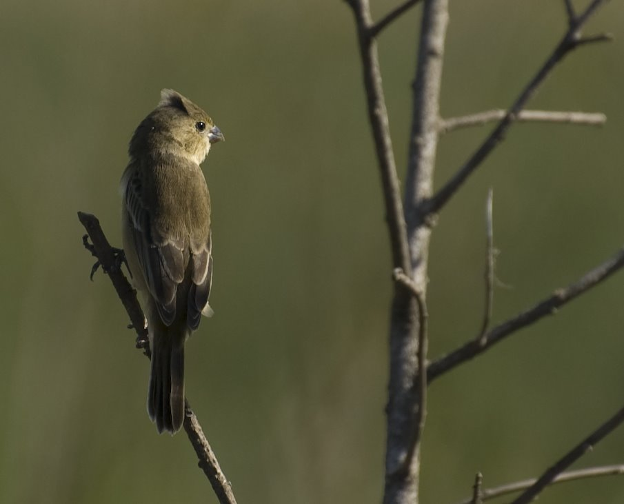 Sporophila cinnamomea CAPUCHINO CORONA GRIS HEMBRA